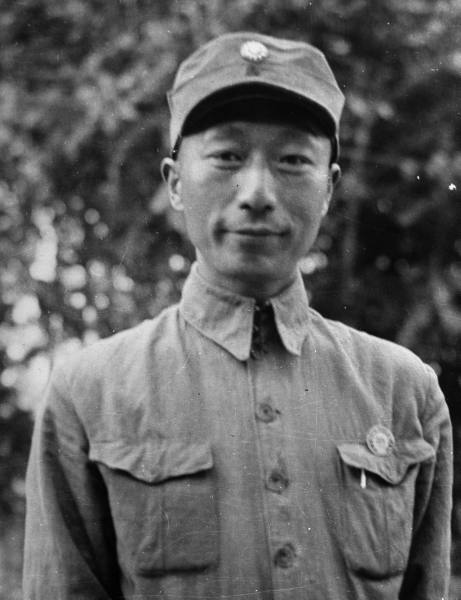 1940 Nie Ronzhen in NRA uniform.